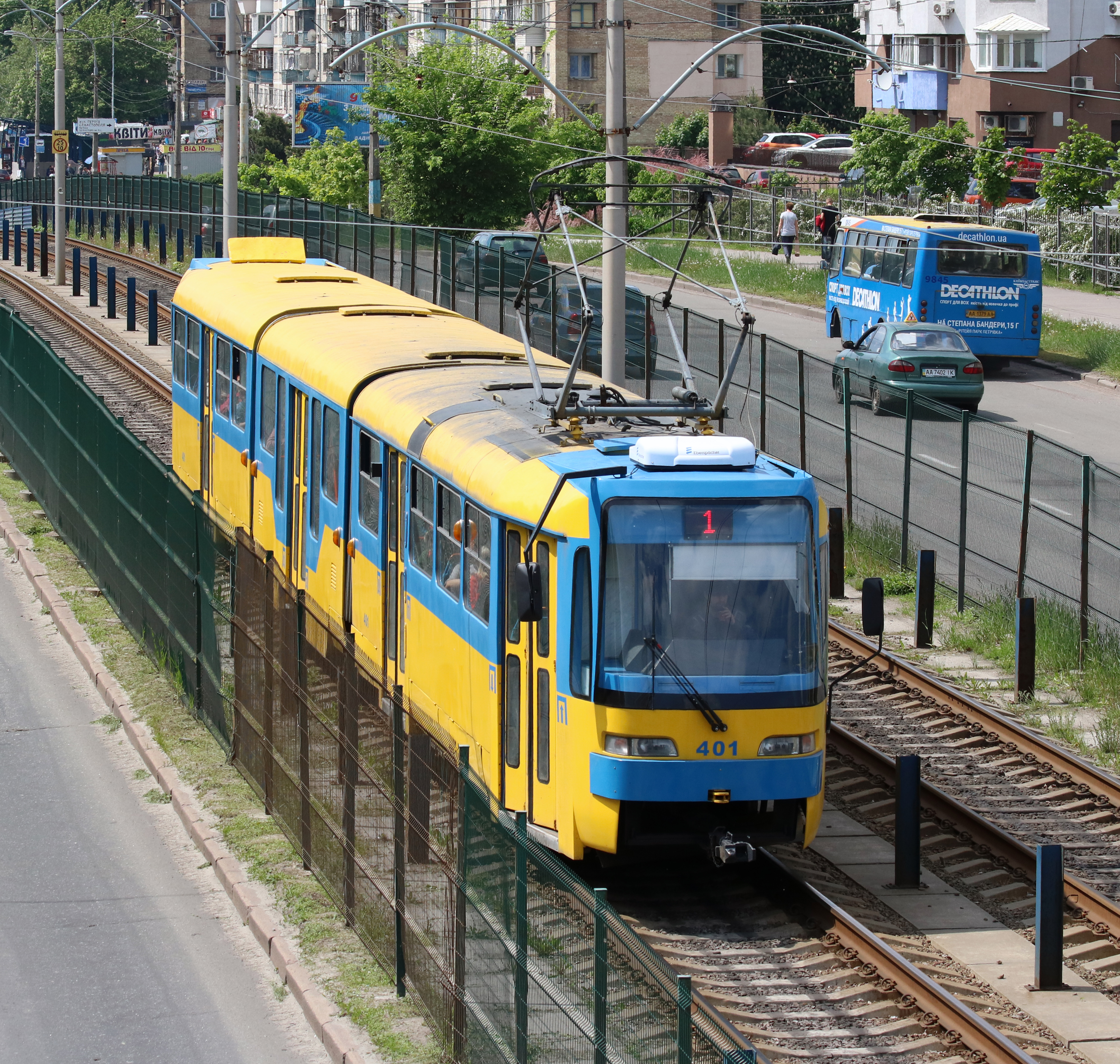 Kyiv Express Tram Tatra К3R-N (KT3UA) #401. Pravoberezhna Line